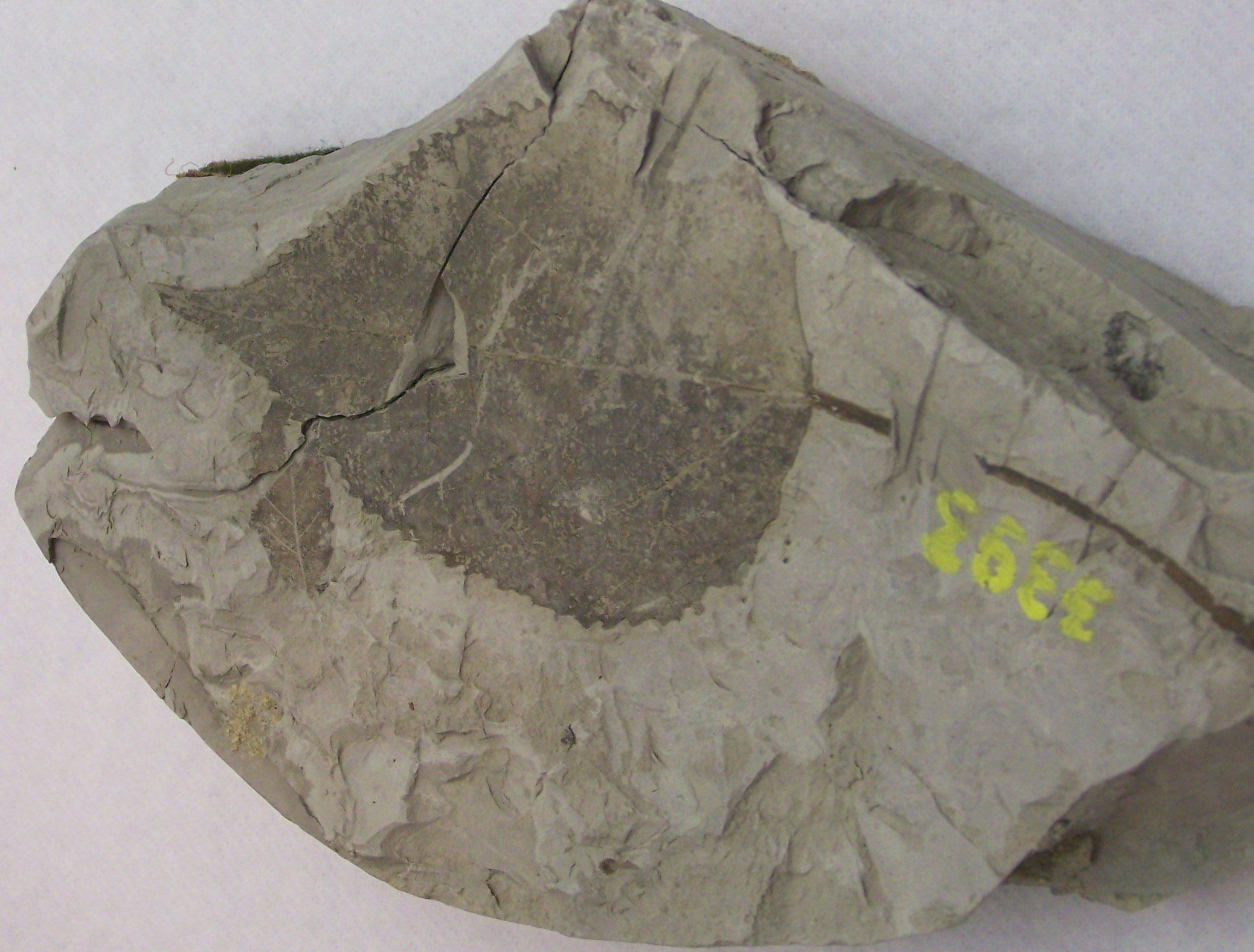 Fossil leaf of tree species Populus balsamoides, Miocene age. Leaf is ca. 8 cm long, collection of the Universiteit Utrecht.